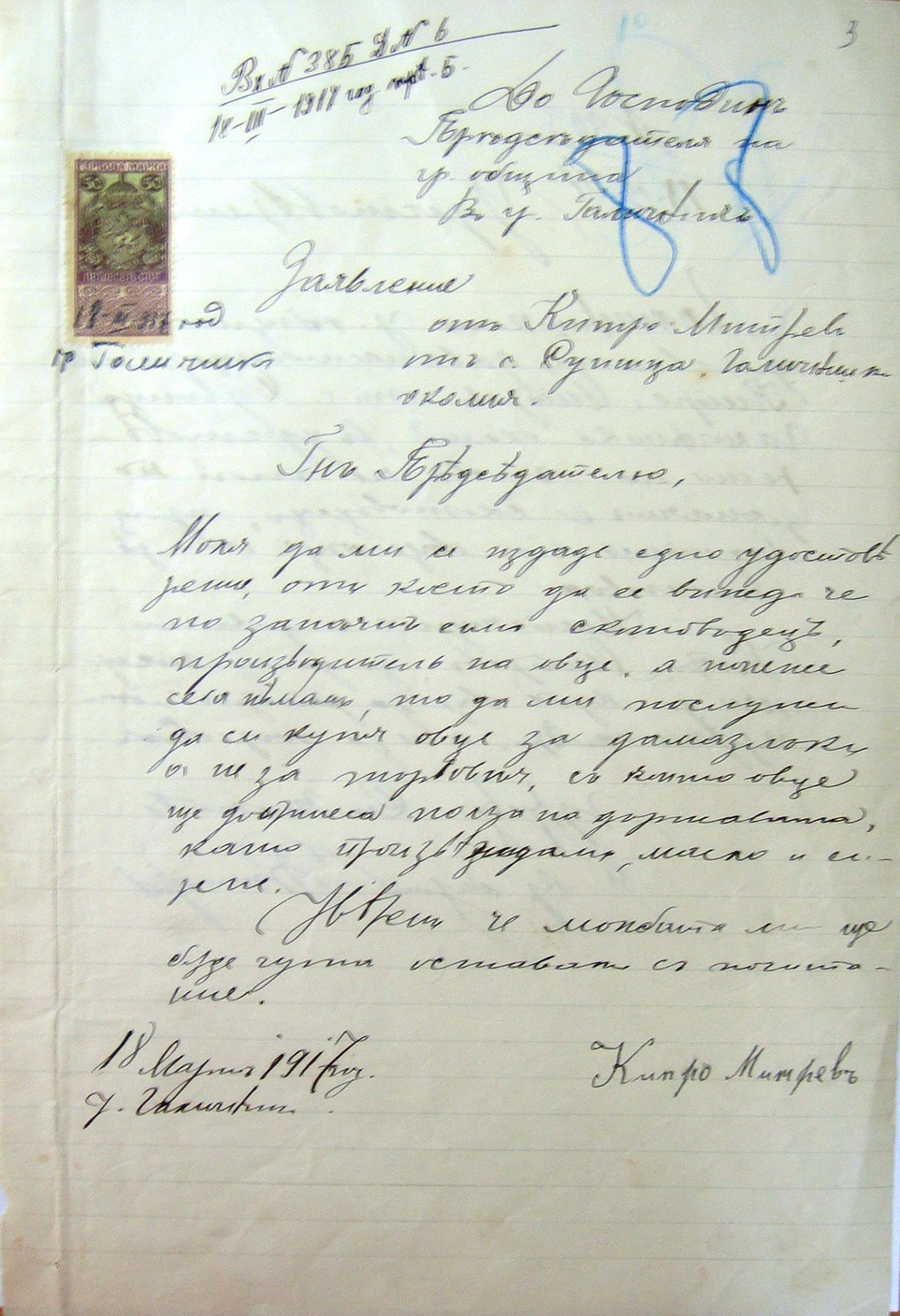 Request with stamp from Kipro Mitrev, from village Sushica, Galichnik area, asking to get permission to buy sheep. (18 March 1917) This media file is produced by Wikipedian in Residence in Category:Wikipedian in Residence at DARM in 2016.